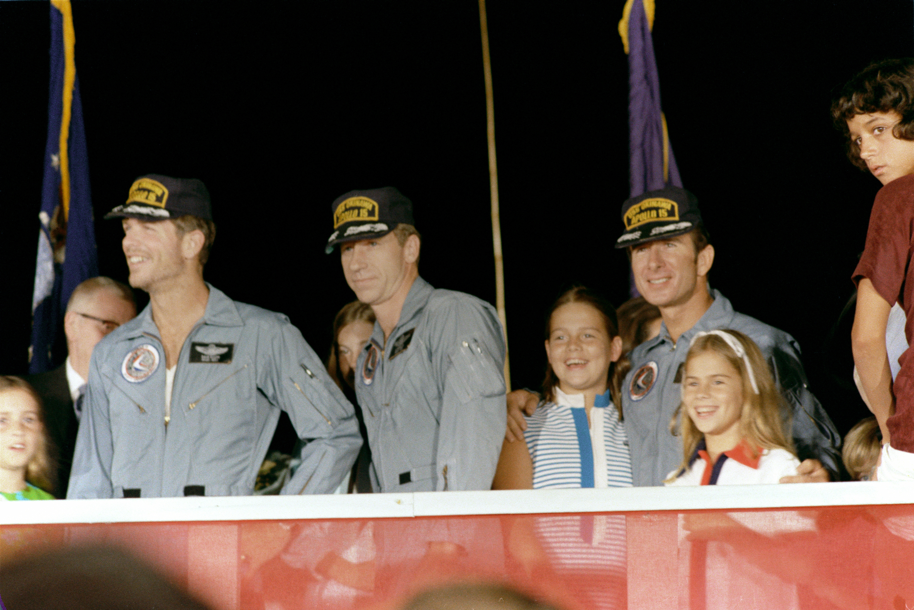 The three Apollo 15 crew receive a welcome on their arrival at Ellington Air Force Base, Houston, Texas, after en eight-hour flight aboard a U.S. Air Force C-141 jet aircraft from Hawaii. Left to right are: Astronauts David R. Scott, Alfred M. Worden and James B. Irwin. Members of the astronaut's families identified in picture are left to right: Scott's daughter, Tracy; Worden's father, Merrill Worden; Worden's daughter, Merrill; and Irwin's two daughters, Joy and Jill.